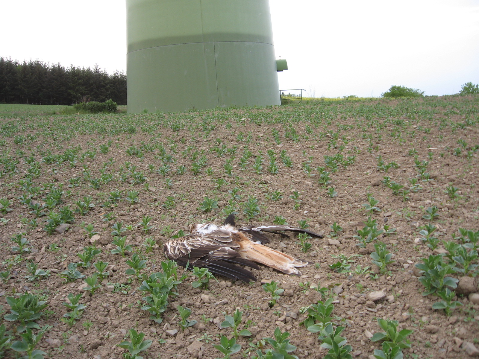 Discovery of a red kite (Milvus milvus), victim of wind power, lying only 25 m from the western wind turbine at Arnsberg-Kirchlinde (Germany, North Rhine Westphalia, Sauerland). An investigation by the extension office of the chemical and veterinary investigations authority of Westphalia confirmed that the kite died of blunt force trauma.